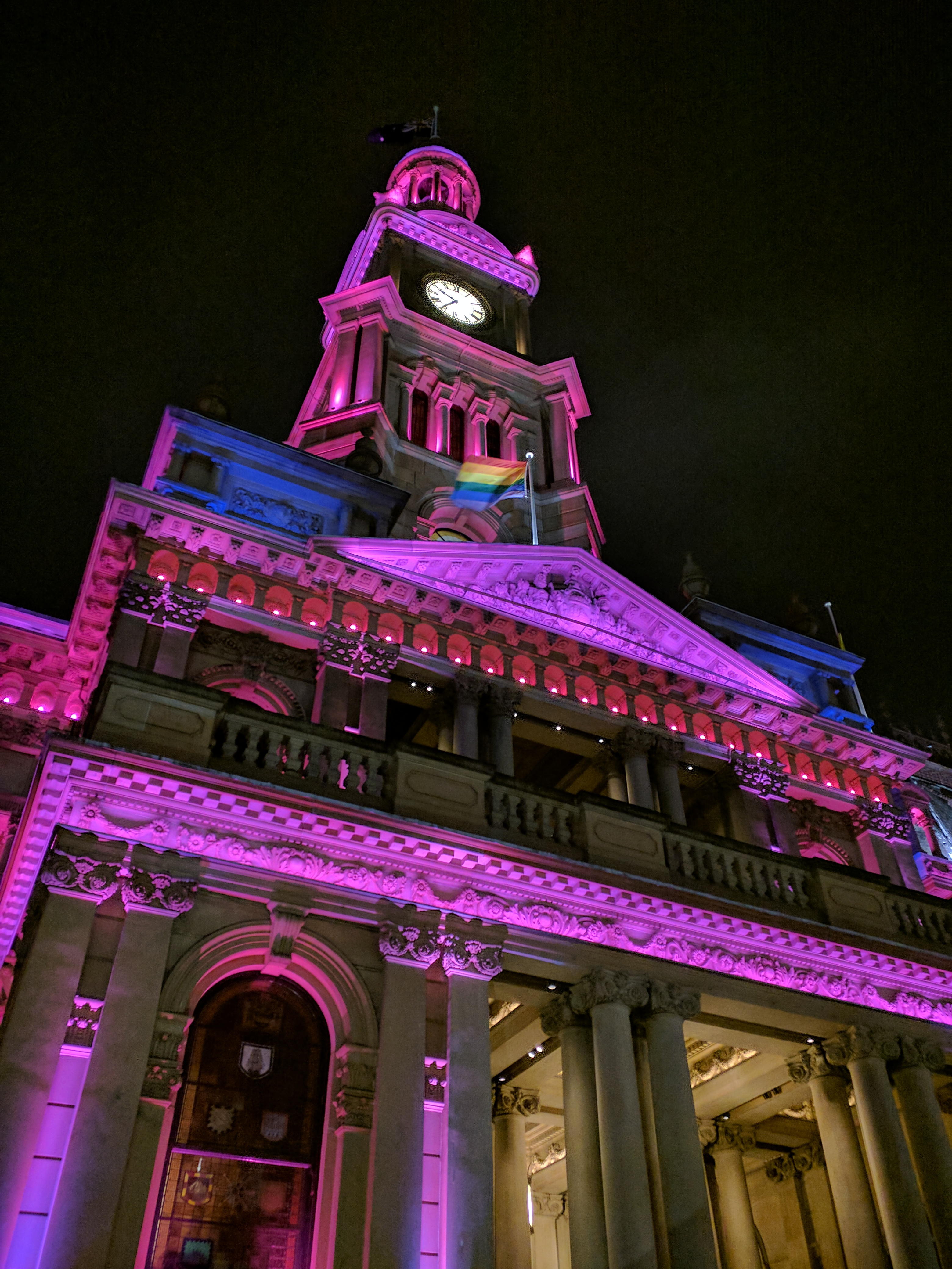 Sydney Town Hall illuminated in LGBT pride colors in support of the 2017 plebiscite on same sex marriage.